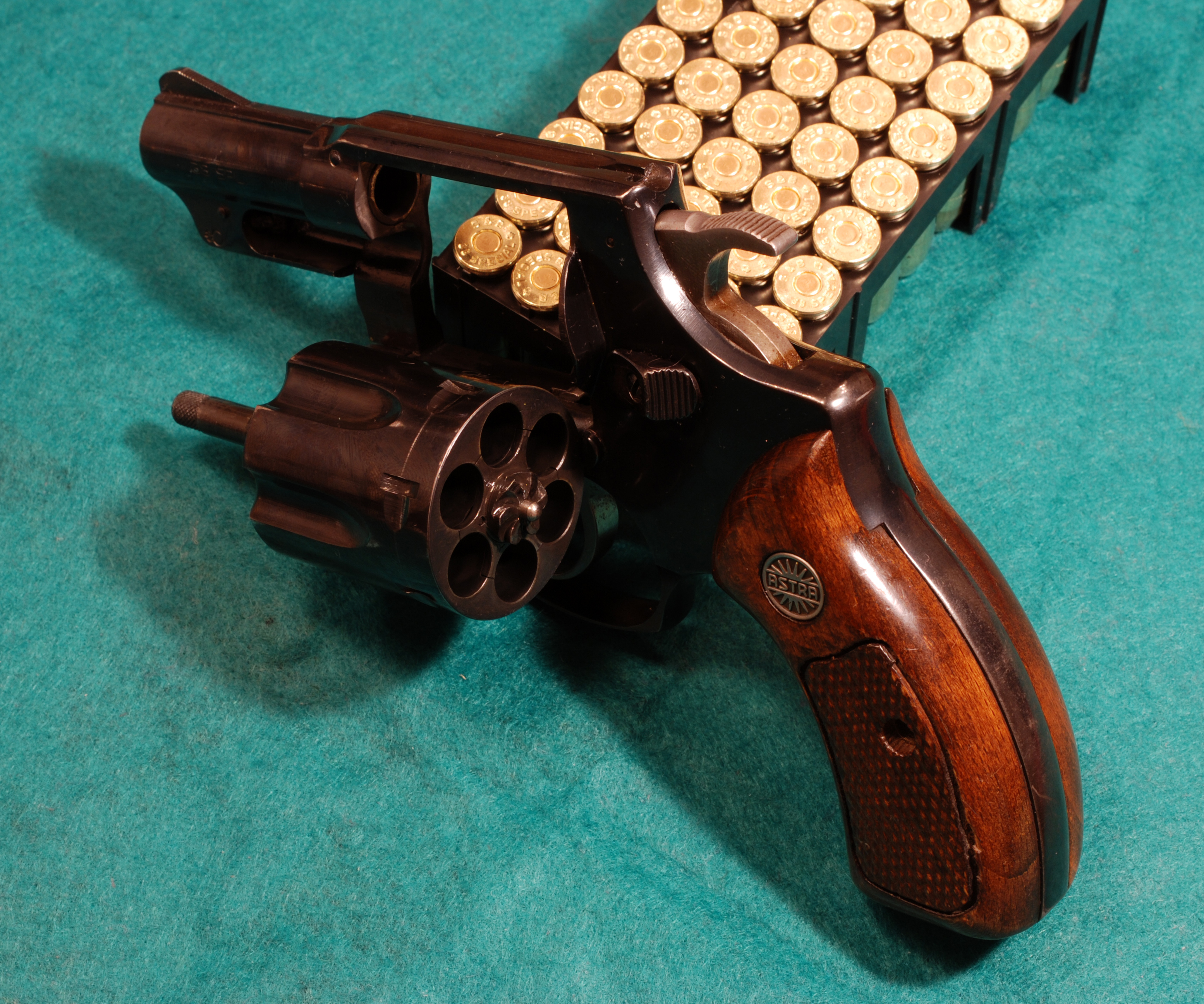 Picture of Astra 680 revolver cal. .38 Special